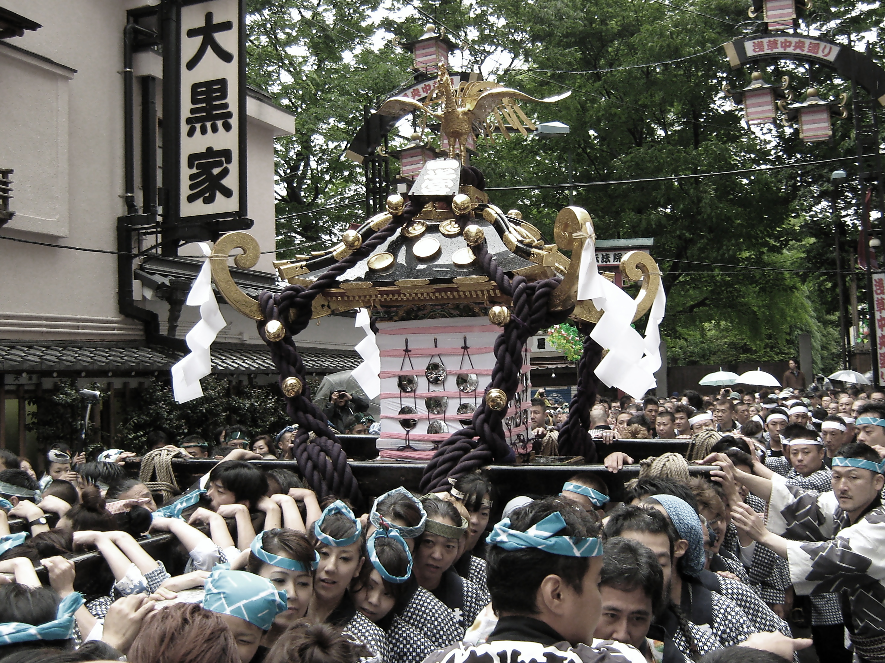 In Apr/May 2009, I took 15 days to walk all the way from Tokyo to Kyoto, roughly following the 546km long, ancient highway, the Nakasendo, alone. This picture was taken during the free week I had in Japan after the walk. Read about my preparations and my time in Japan at .